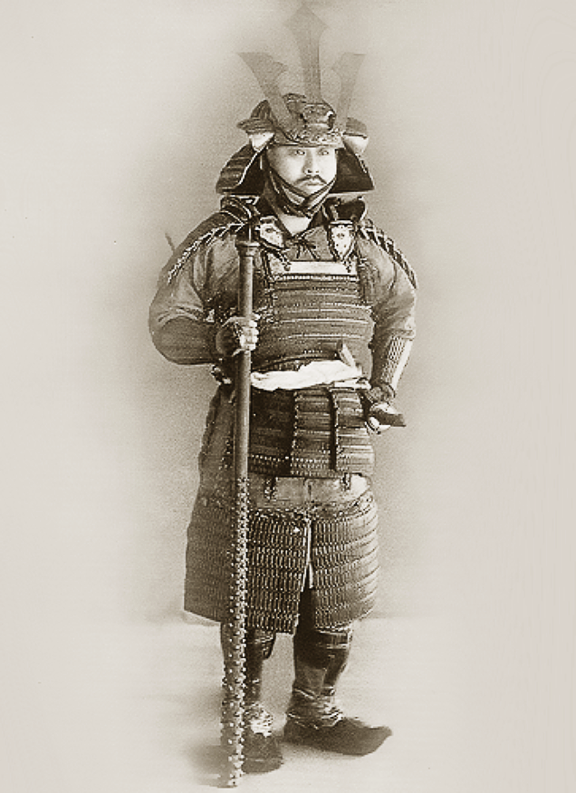 Samurai holding a kanabo.